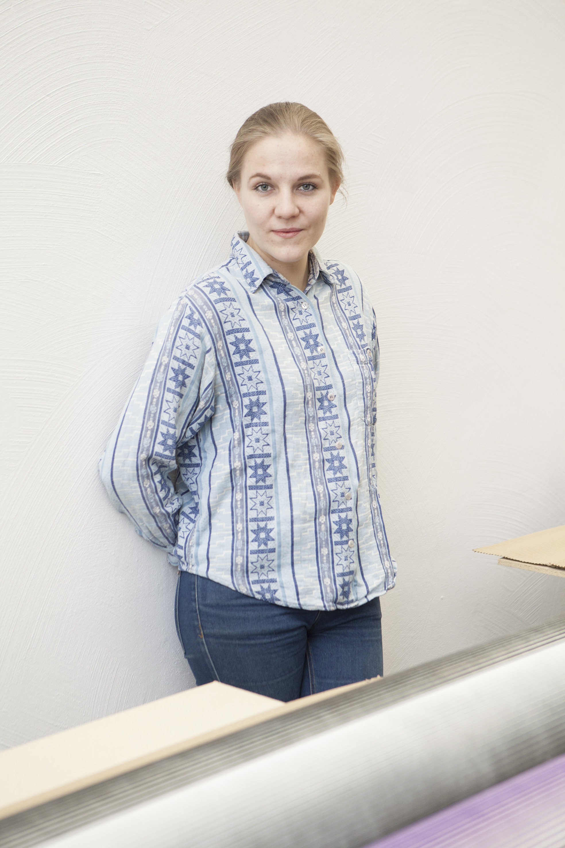 Elina Autio In Kiasma photo: Kansallisgalleria / Pirje Mykkänen Finnish National gallery / Pirje Mykkänen